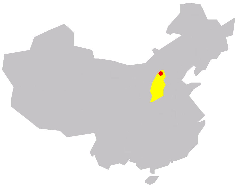 position of Datong in China